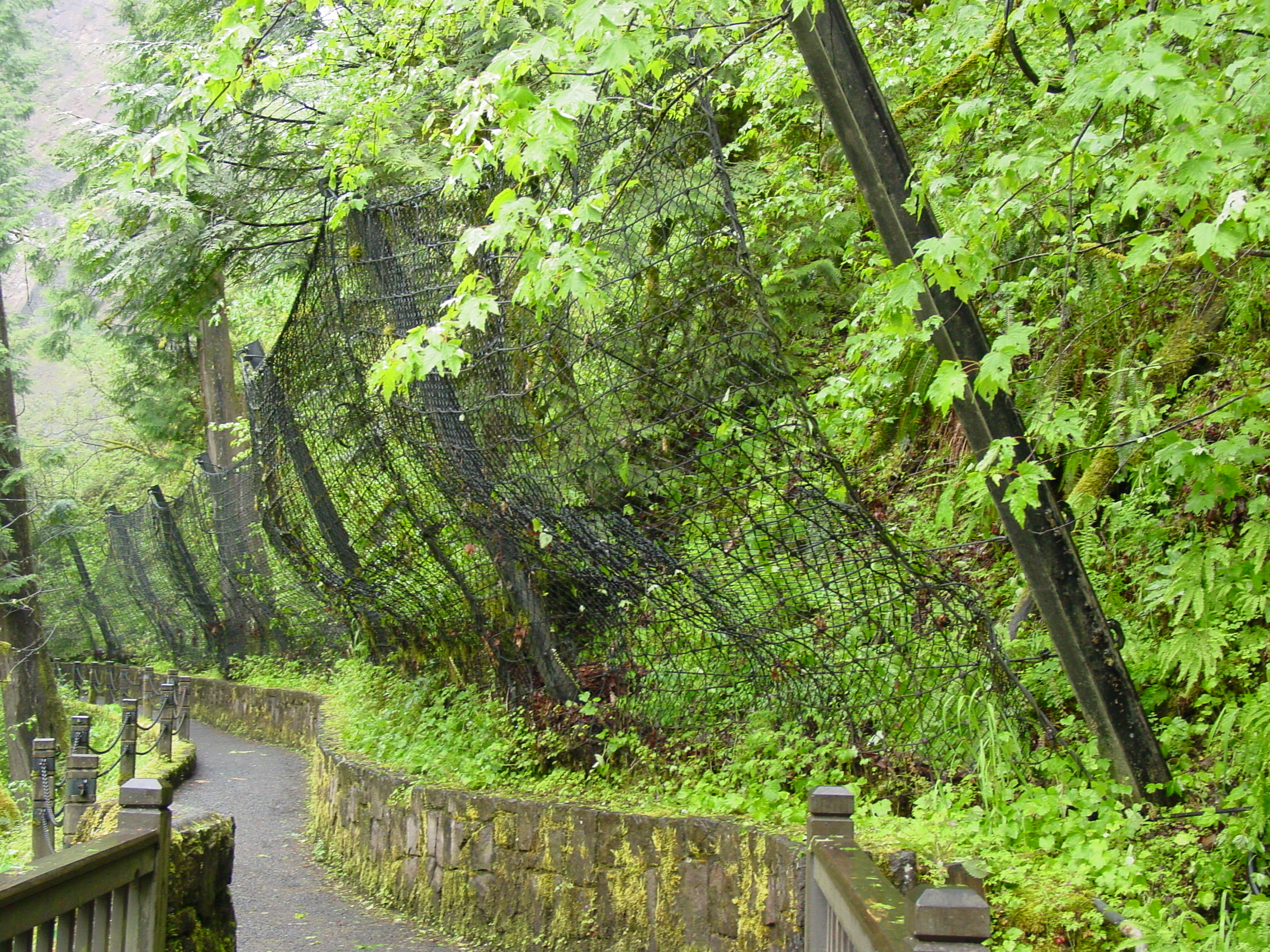 Boulder net used for falling rock control on a trail at Multnomah_Falls, Oregon, United States. Though it may be difficult to tell, this trail runs along a very steep slope- notice the guard posts on the left side of the trail, and the steep rockface on the right side.